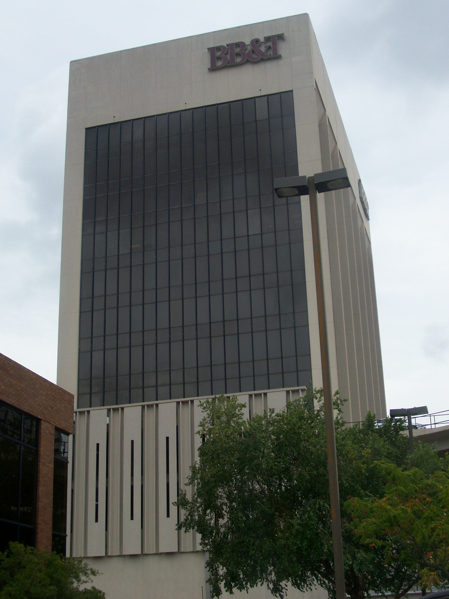 This is a picture of the BB&T Building that I took from a building right beside it.